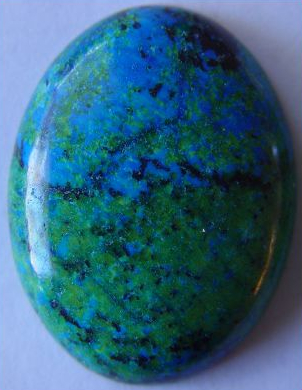 Azurite and malachite are both crystals formed by the weathering process that breaks down natural copper ore deposits. Azurite is a brilliant blue with a hardness of around 3.5 to 4 on the Mohs scale as well as a specific gravity of around 3.77 to 3.89 and a refractive index of 1.655-1.909. Azurite is mined for use in paint pigments, often producing a range of blues dependent on the mineral’s natural color. Malachite is the Greek translation of moloche, meaning mallow, due to its color. Read more about azurite / malachite at